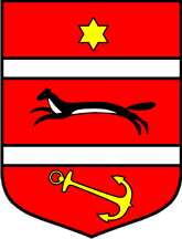 Official coat of arms of the Virovitica-Podravina county in Croatia, made from gif version at by Željko Heimer